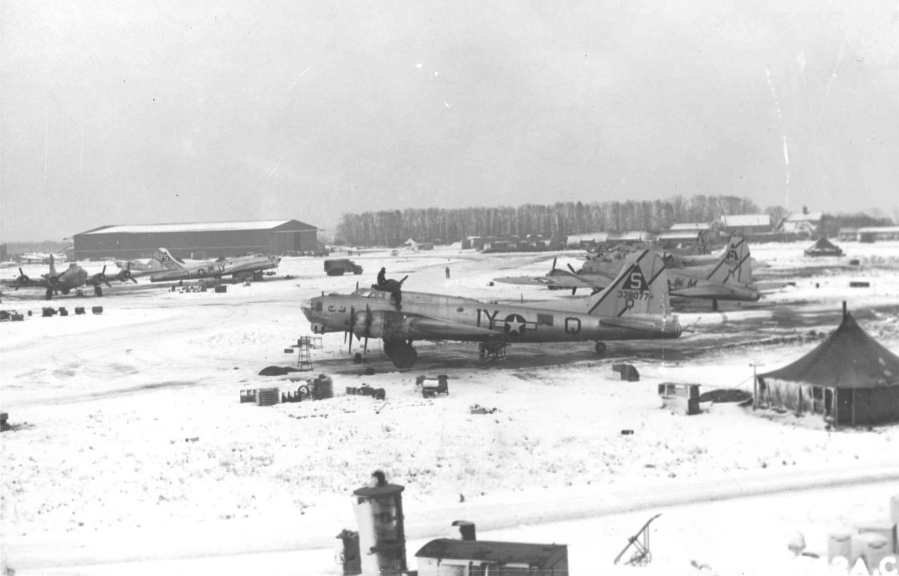 B-17s of the 401st Bomb Group, Deenethorpe Airfield England, 1944. Boeing B-17G-80-BO Flying Fortress Serial 43-338077 is in foreground; the 401st Bomb Group Association web site identifies this aircraft as assigned to 615th Squadron and as having had two nicknames at different times: "Tagalong " and "Duke's Mixture."